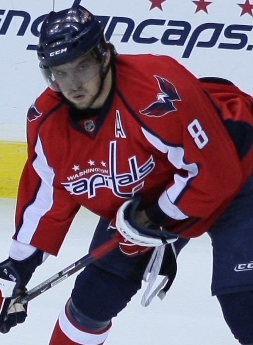 Cropped photo of Alexander Ovechkin